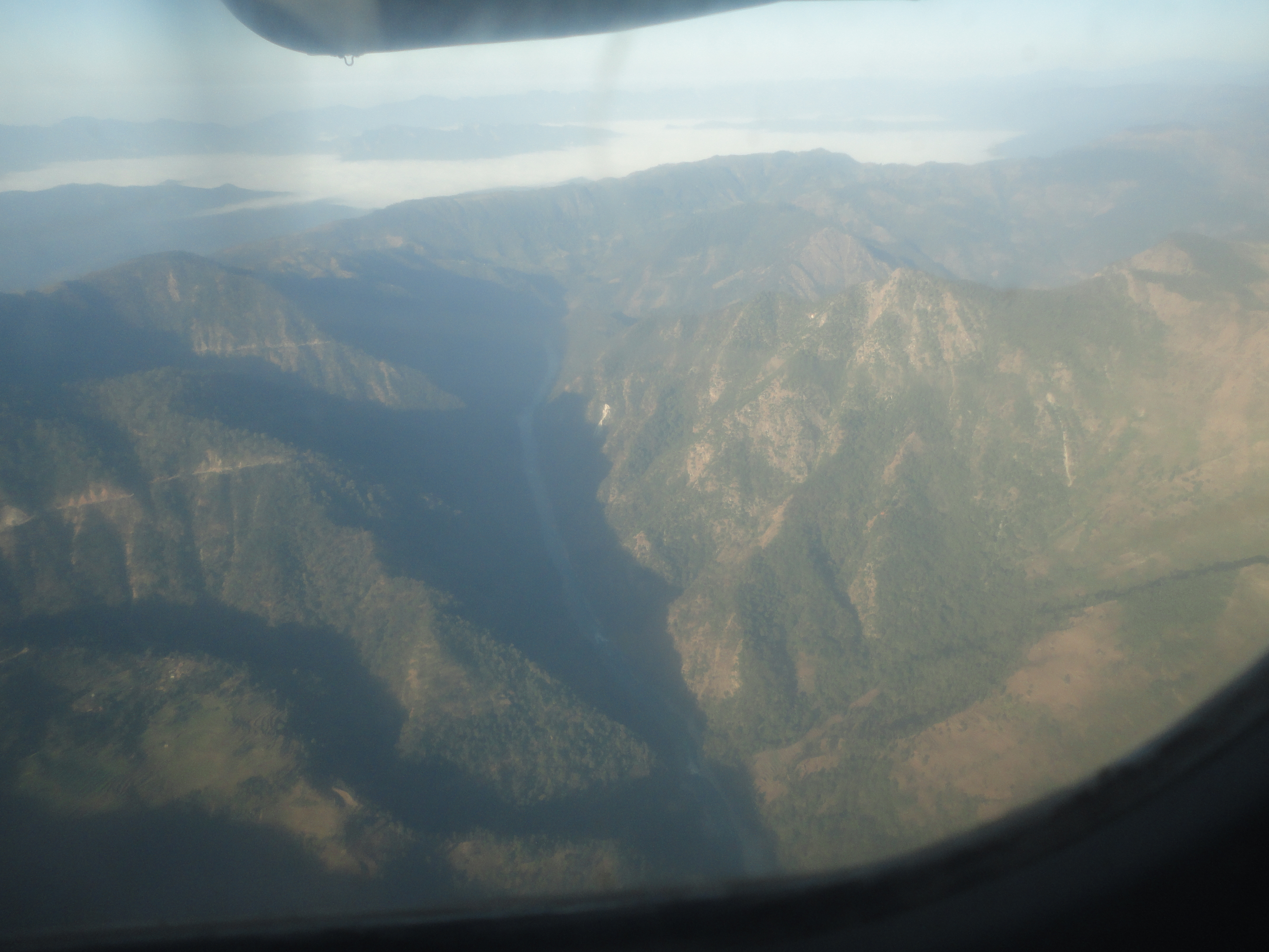 Aerial view of Dailekh District (Mid Westrn Nepal) on the way to Surkhet from Humla.